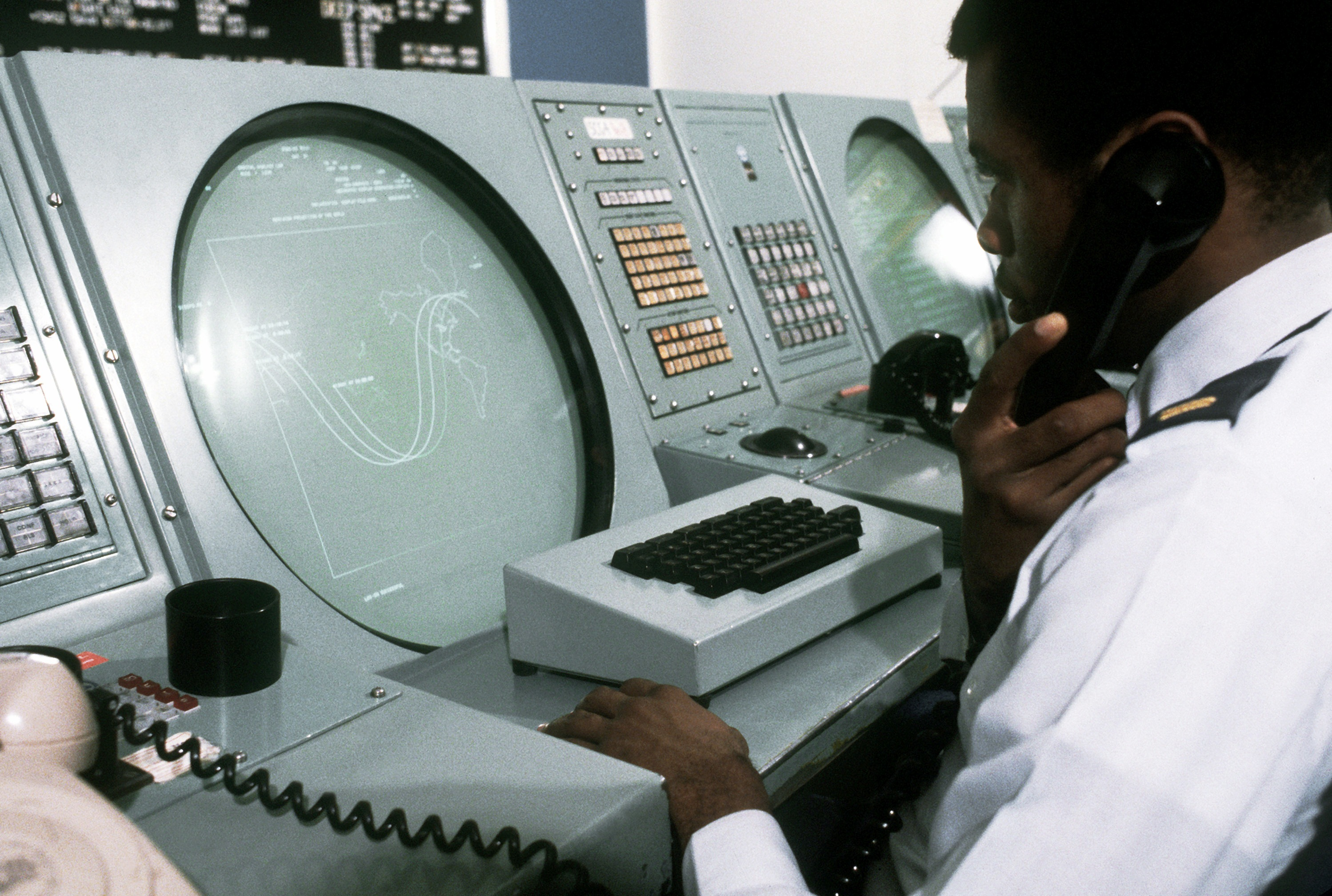 An orbital analyst tracks the Kosmos 1402 spy satellite in orbit in the Space Defense Operations Computation Center, North American Aerospace Defense Command (NORAD).